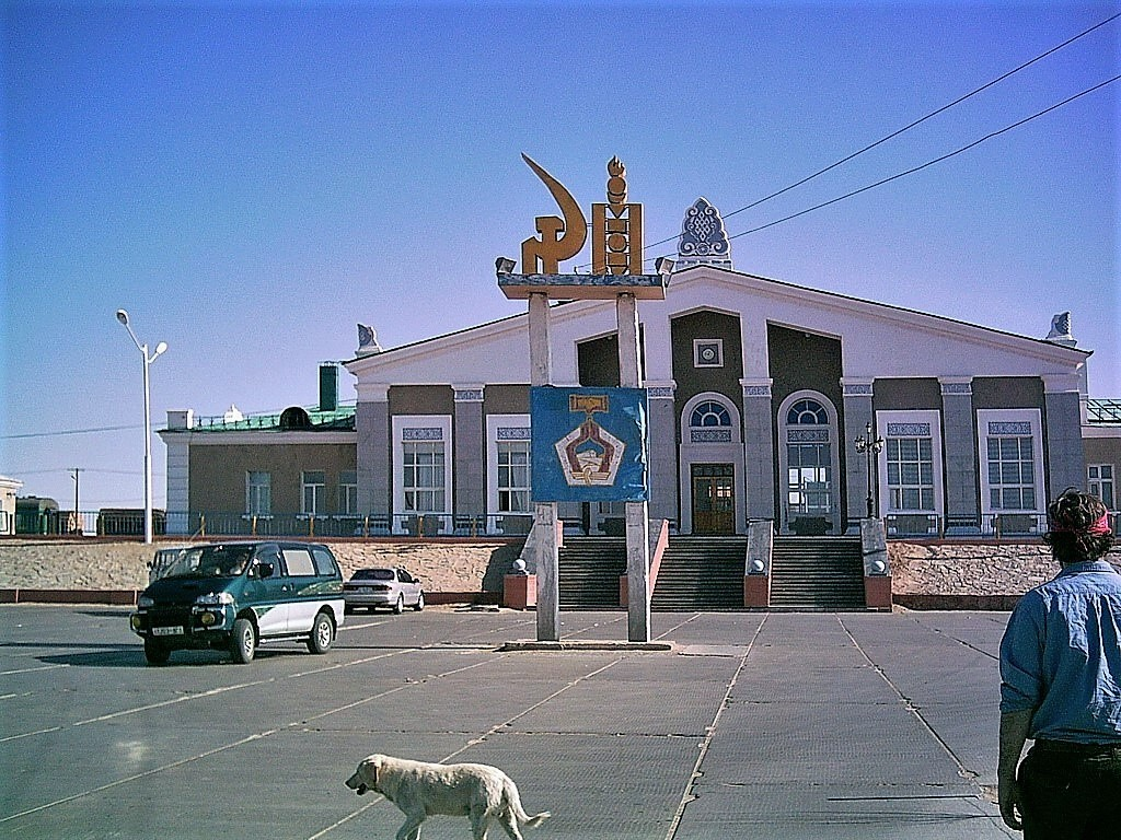 Sainshand train station. pretty classic.